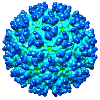 CryoEM model of western equine encephalitis virus, 12Å resolution. EMDB entry EMD-5210